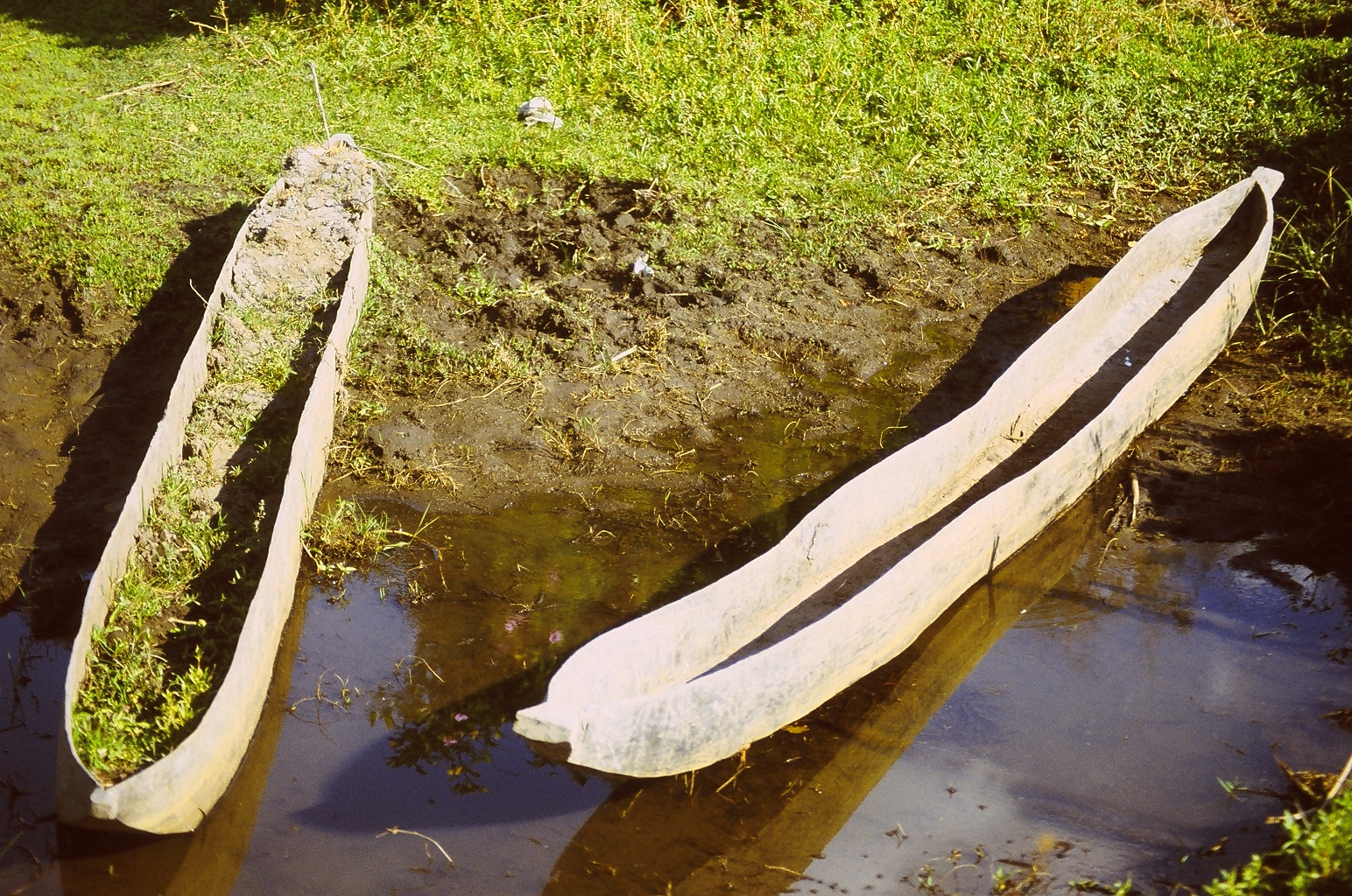 Dugout canoes in the Bangweulu Swamps, Zambia, in the dry season